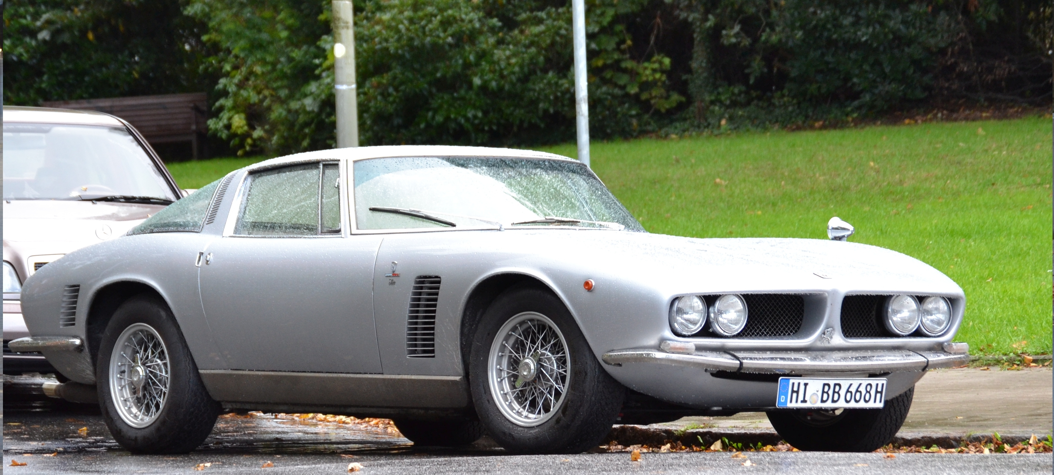 Iso Grifo, License plate modifyed